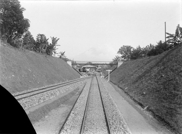 The railway line Secang-Parakan with railway station of Temanggung in the distance, Central Java, Indonesia